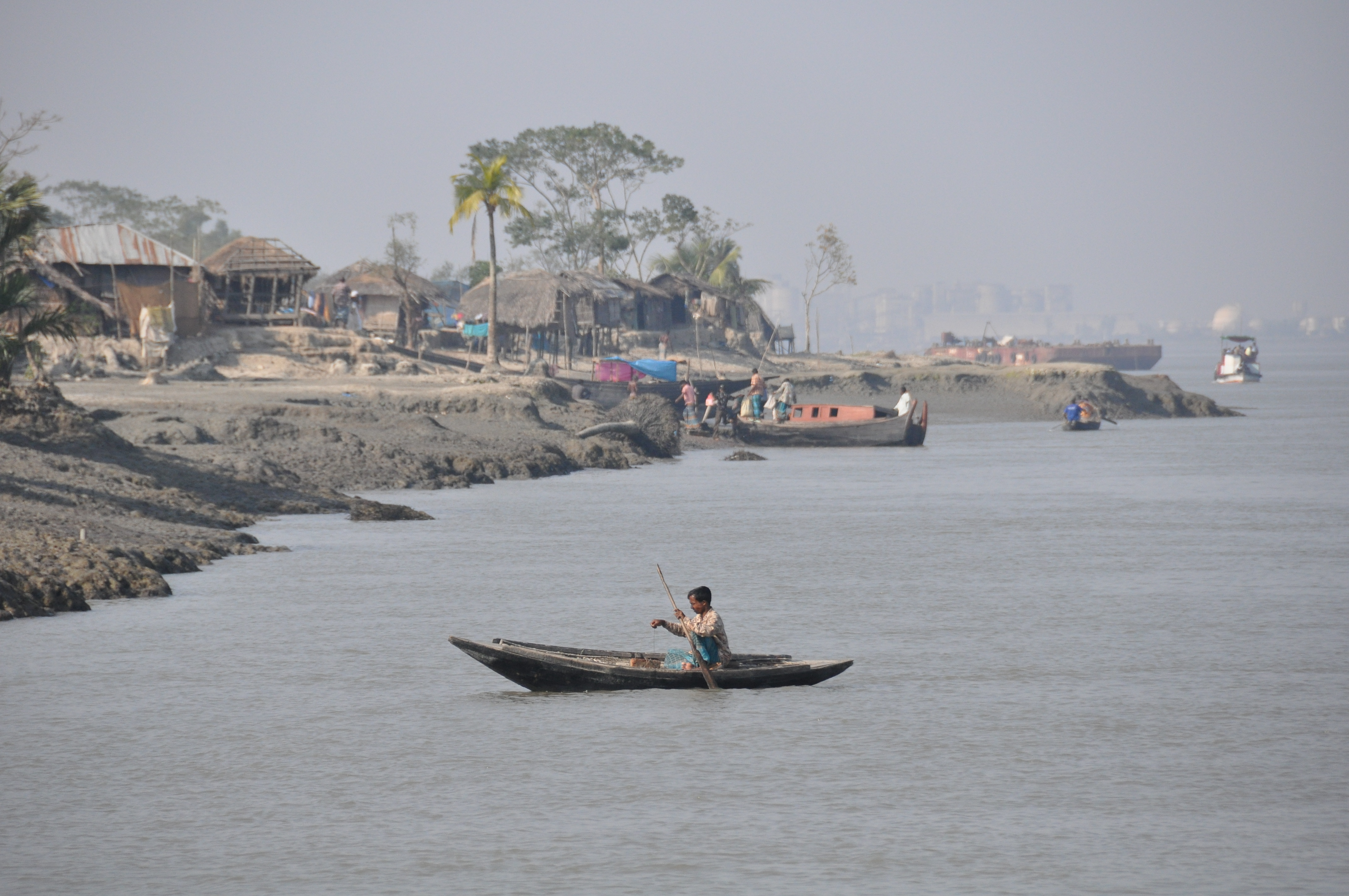 CBA Site visit to Mongla, Khulna, Bangladesh. Climate change adaptation